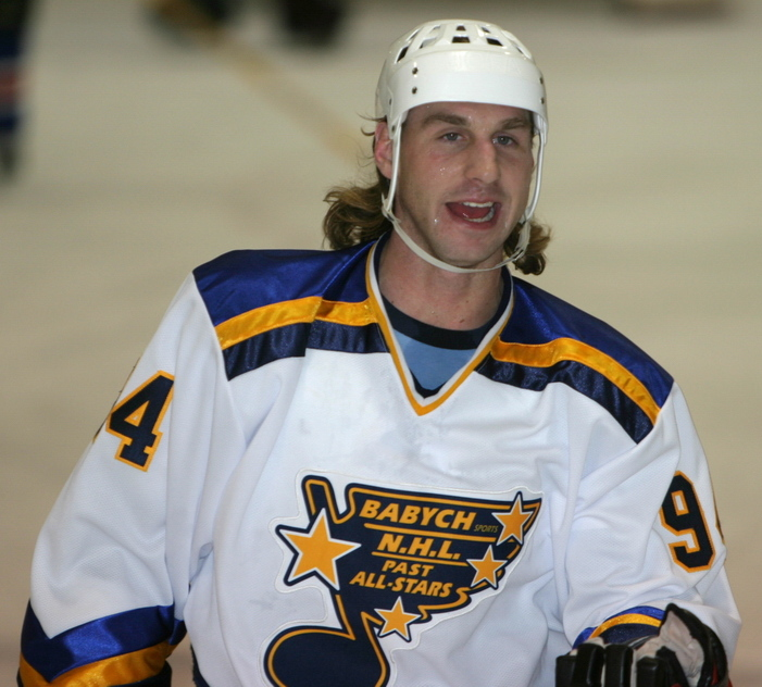 Ryan Smyth in 2005; Author: Mark Marek Copyright: Mark Marek Â©2005 I Mark Marek took this image and hold copyright to it. I release it for use on